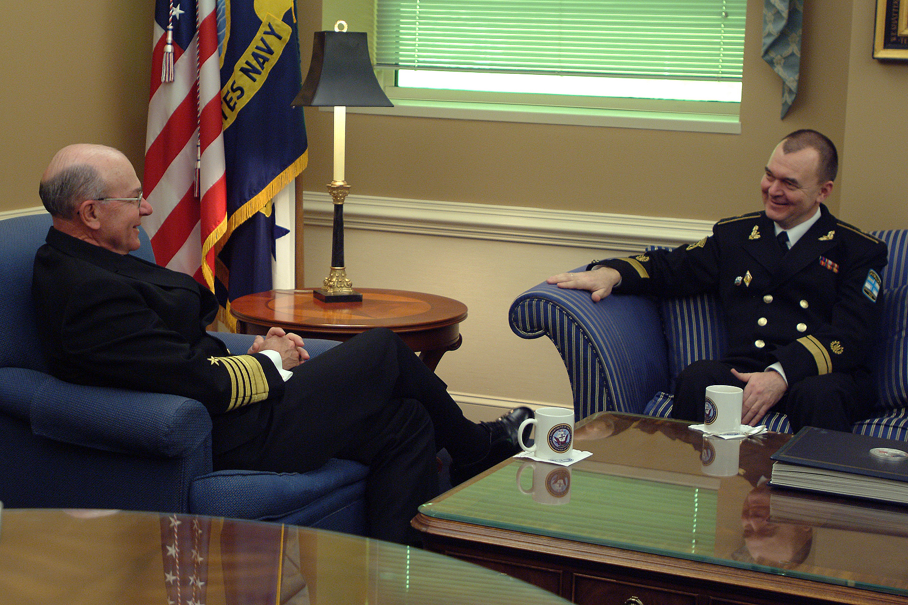 Rear Adm. Ihor Knyaz, Chief, Ukrainian Naval Forces pays a visit with Adm. Vern Clark, Chief of Naval Operations (CNO) at the Pentagon.